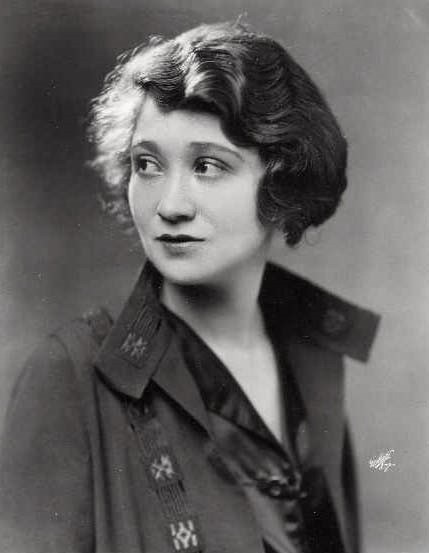 Fay Bainter